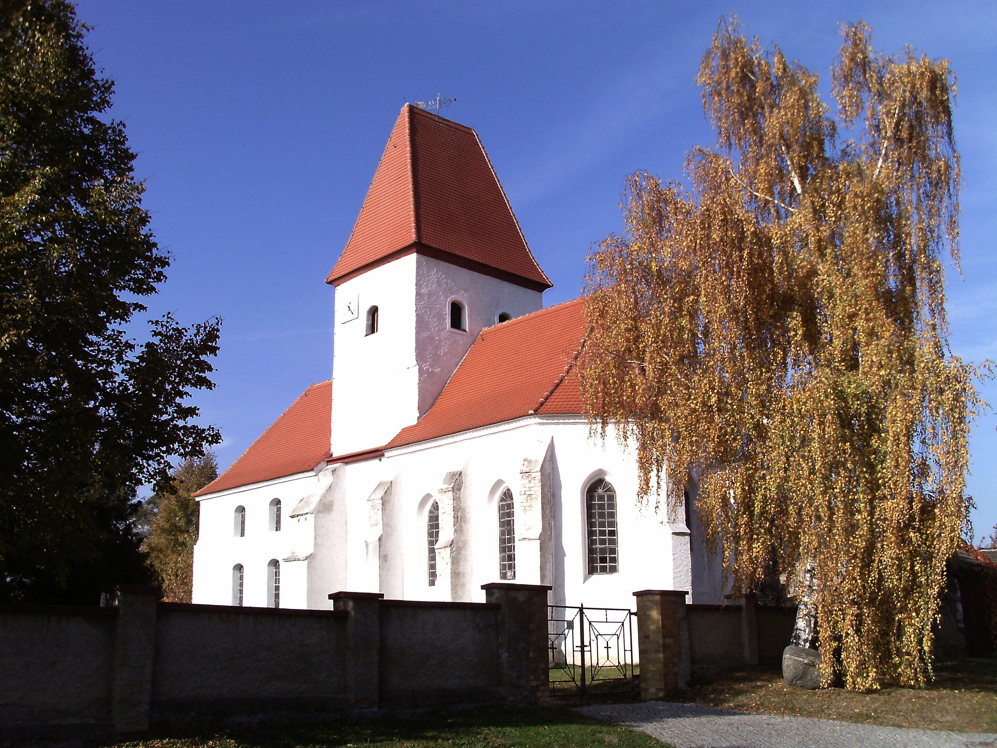 Wolteritz church (Schkeuditz, Nordsachsen district, Saxony)